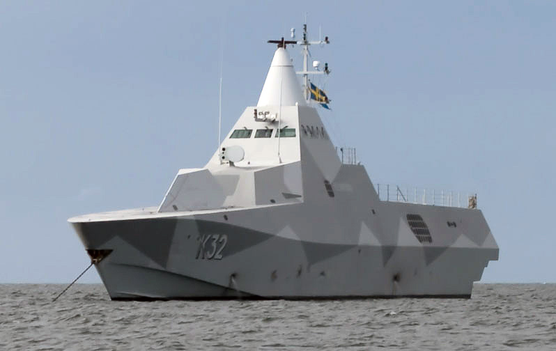 Swedish Visby-class corvette HSwMS Helsingborg (K32) photographed while anchored in the vicinity of Gotska Sandön, Sweden